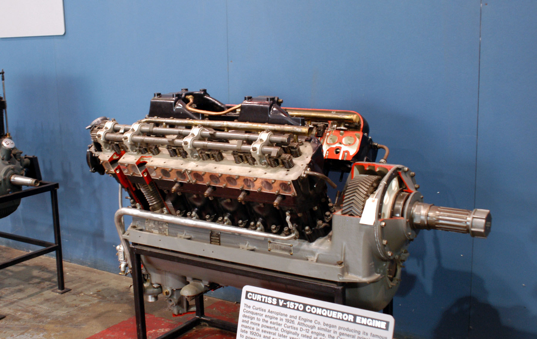 Curtiss V-1570 Conqueror engine on display at the National Museum of the United States Air Force.